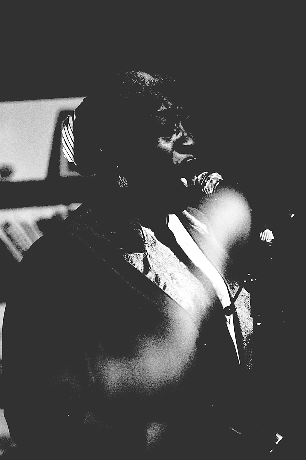 Jeanne Carroll in concert at Kofferfabrik Fuerth, Germany, october 1996.